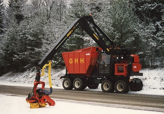 First prototype of a self-propelled wood chipper, built 1994